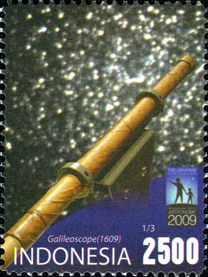 Stamps of Indonesia